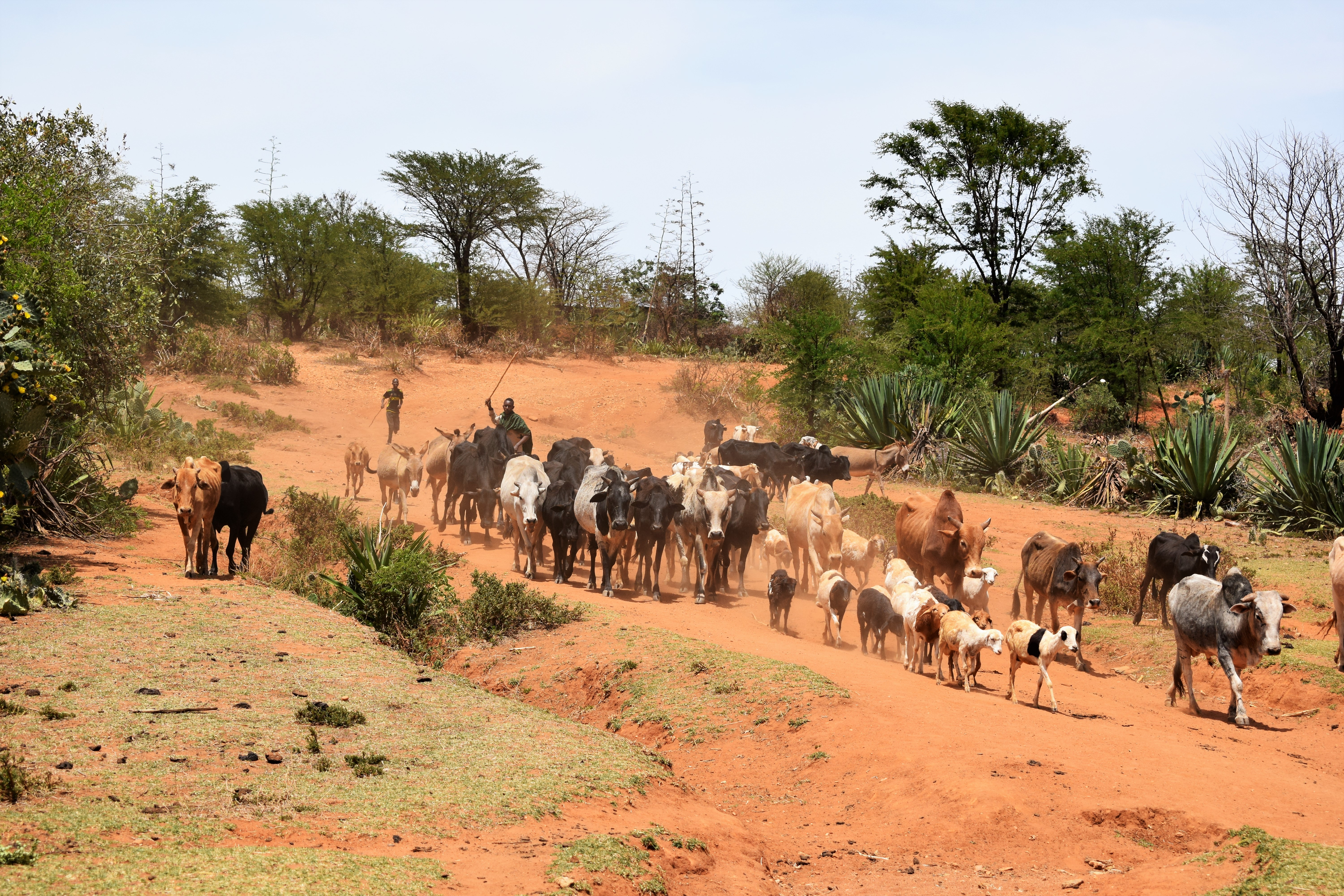 Man guiding his herd through the fields in Dirim This is an image of "African people at work" from Tanzania